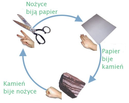 Polish-language version of Rock_paper_scissors.jpg from the English Wikipedia.